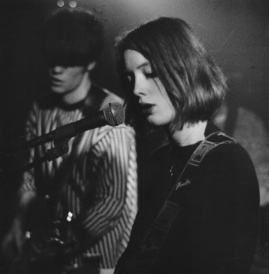 Rachel Goswell and Neil Halstead of Slowdive, live 1992